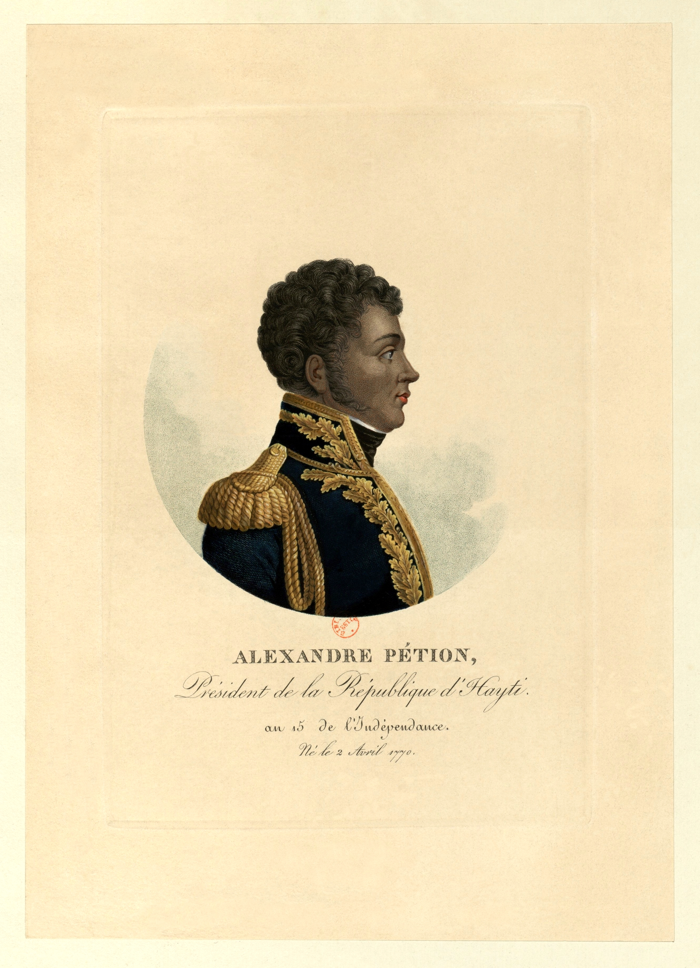 Alexandre Sabès Pétion (1770 - 1818), President of the Republic of Haïti, from 1807 until his death.